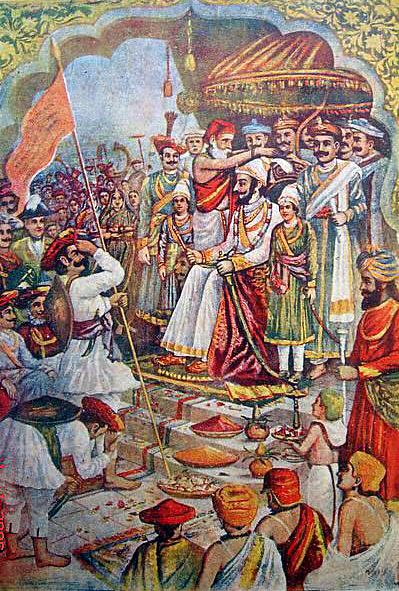 "The coronation of Shri Shivaji," Chitrashala Press, early 1900's